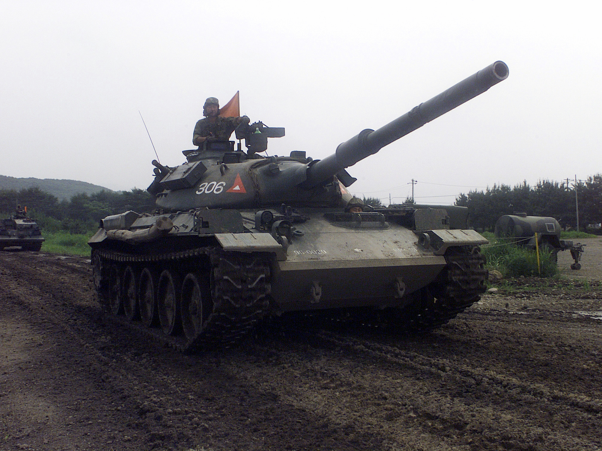 Japanese Ground Self Defense Force Soldiers relocating Mitsubishi Type 74 Main Battle Tanks for a static display during the opening ceremonies welcoming US Marines as they prepare for a live fire exercise at Ojojihara Maneuvering Training Area, Miyagi Prefecture, Japan. In coordination with the Japanese Ground Self Defense Force, 12th Marines from Camp Hansen Okinawa Japan, and 11th Marines India Battery from 29 Palms, California, will conduct live-fire training to sharpen their mission readiness and firing skills with the M198 155mm Medium Towed Howitzer.